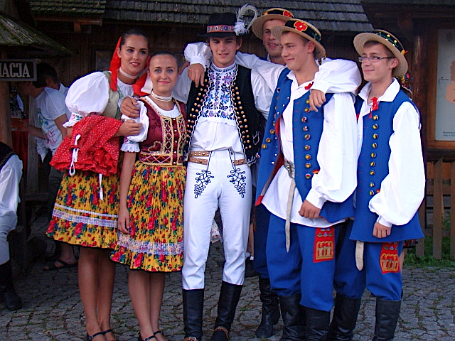 skansen in sanok